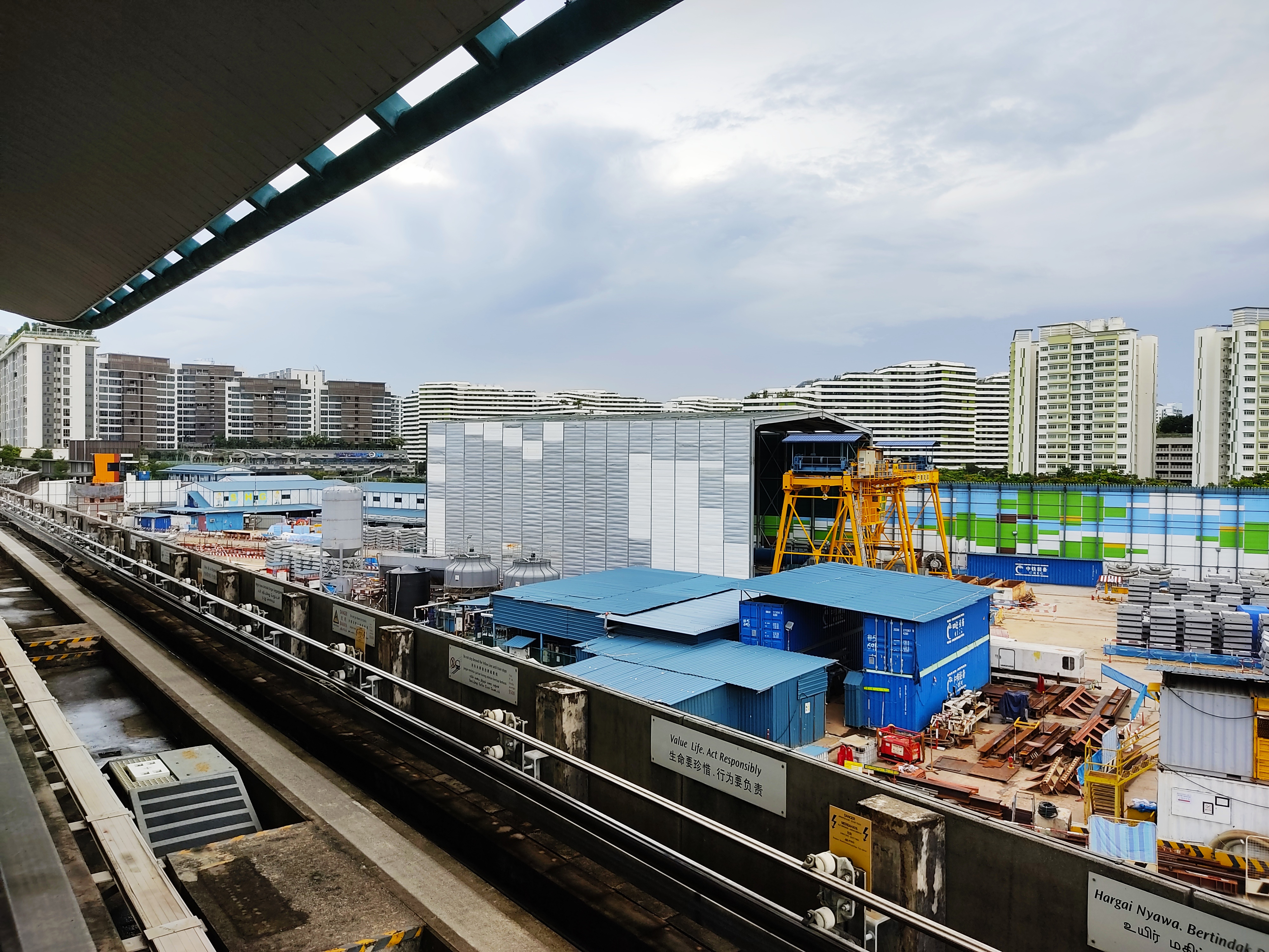 The construction site of NEL tunnels at Sam Kee